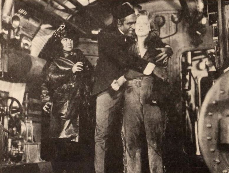 Still from the American film serial Bride 13 (1920) with Gretchen Hartman, Arthur Earle, and Marguerite Clayton, on page 68 of the October 30, 1920 Exhibitors Herald. This may be a scene that was filmed on board the submarine USS R-1.